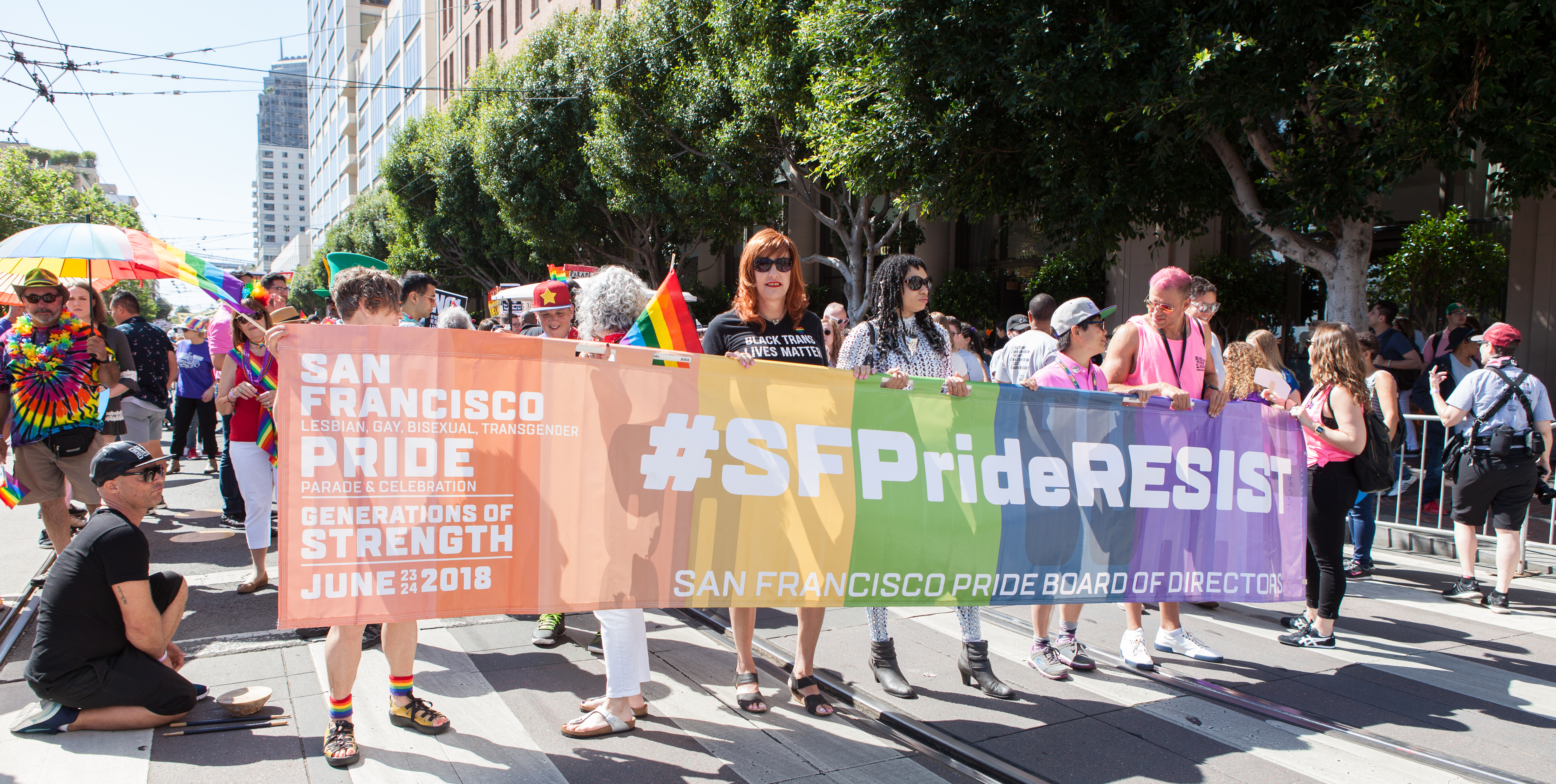 Members of the Resistance Contingent hold a large banner reading "#SFPrideRESIST" at the 2018 San Francisco Pride Parade.